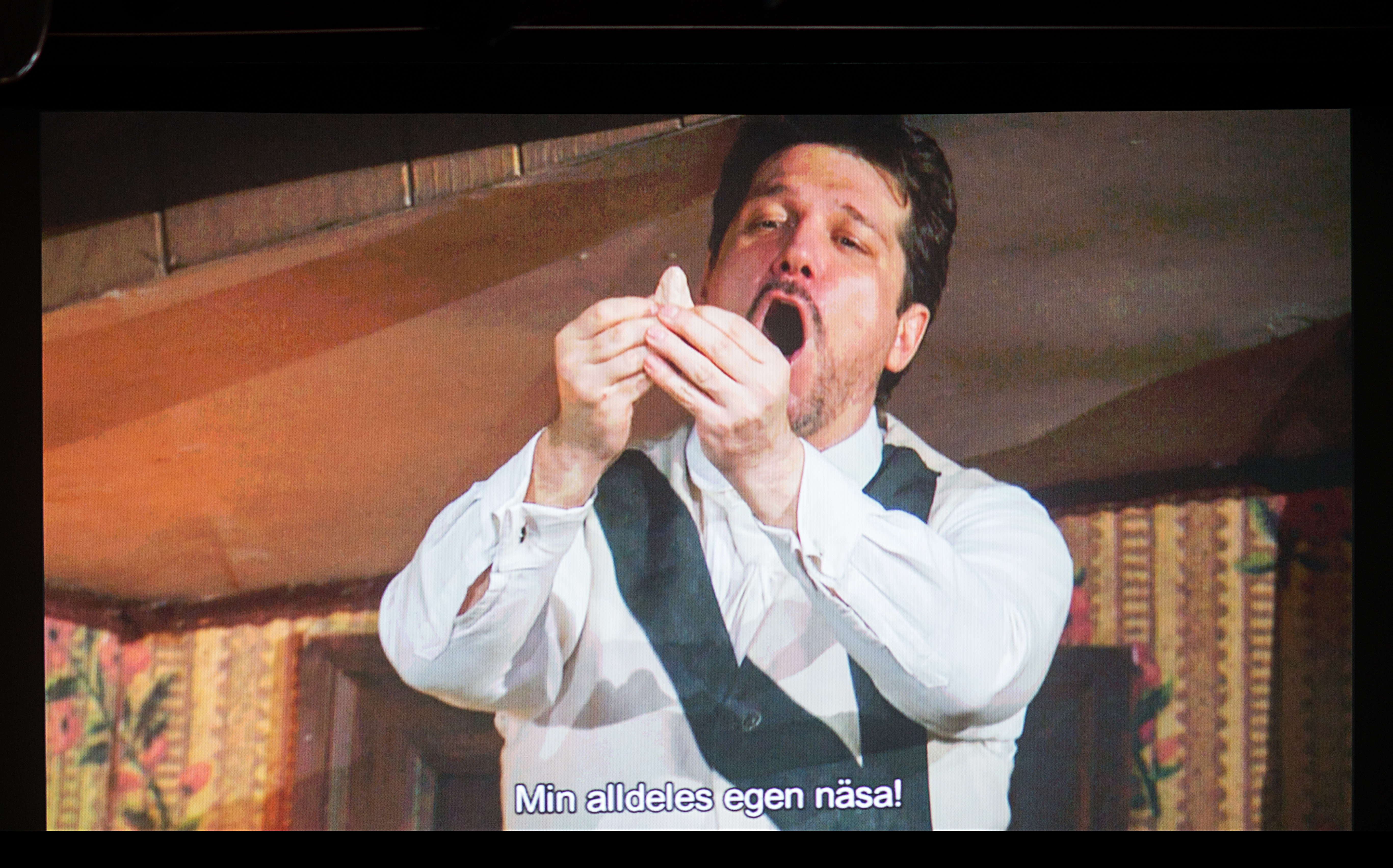 The Nose at The Metropolitan Opera in New York October 2013